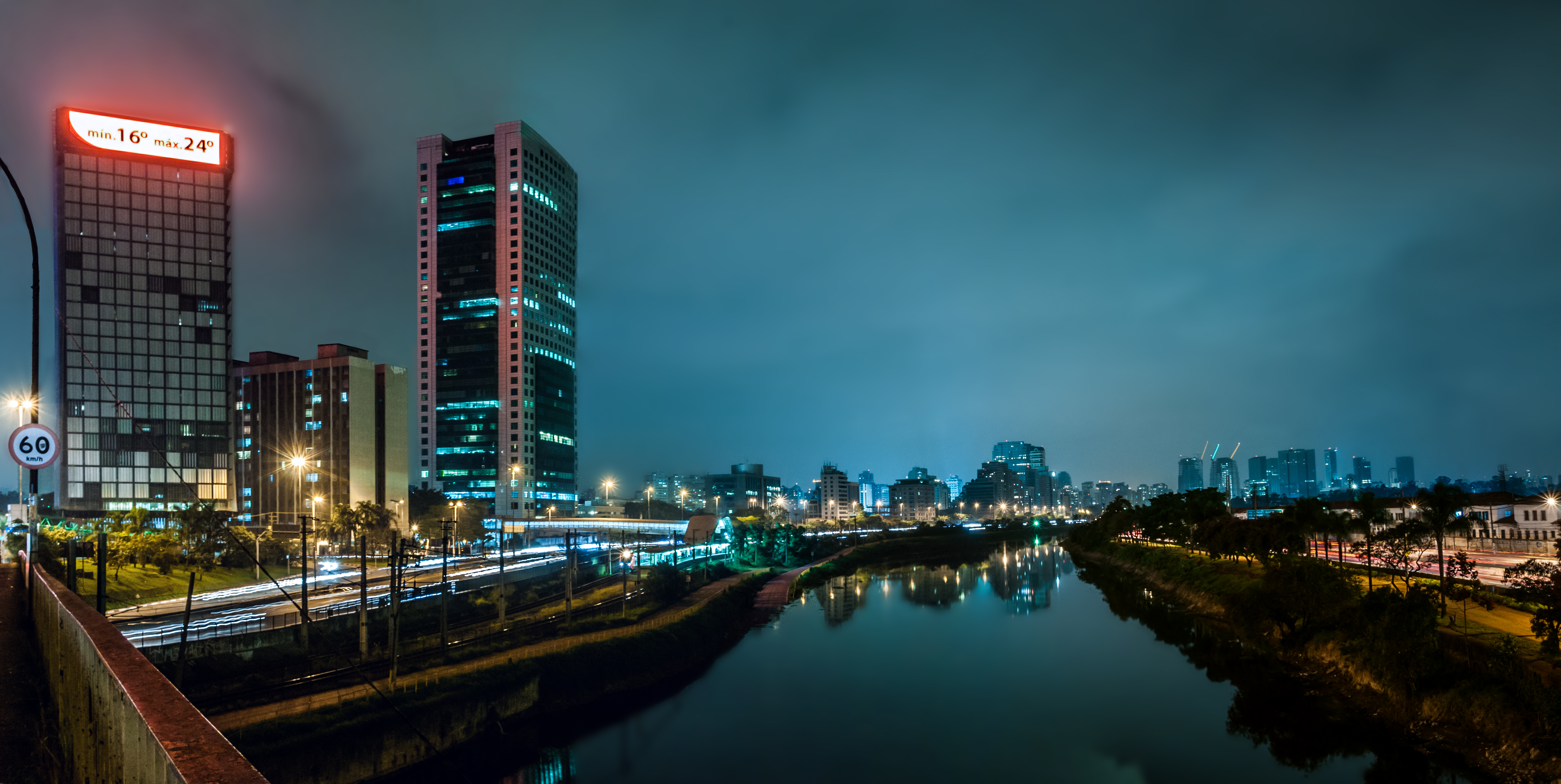 Sao Paulo at night